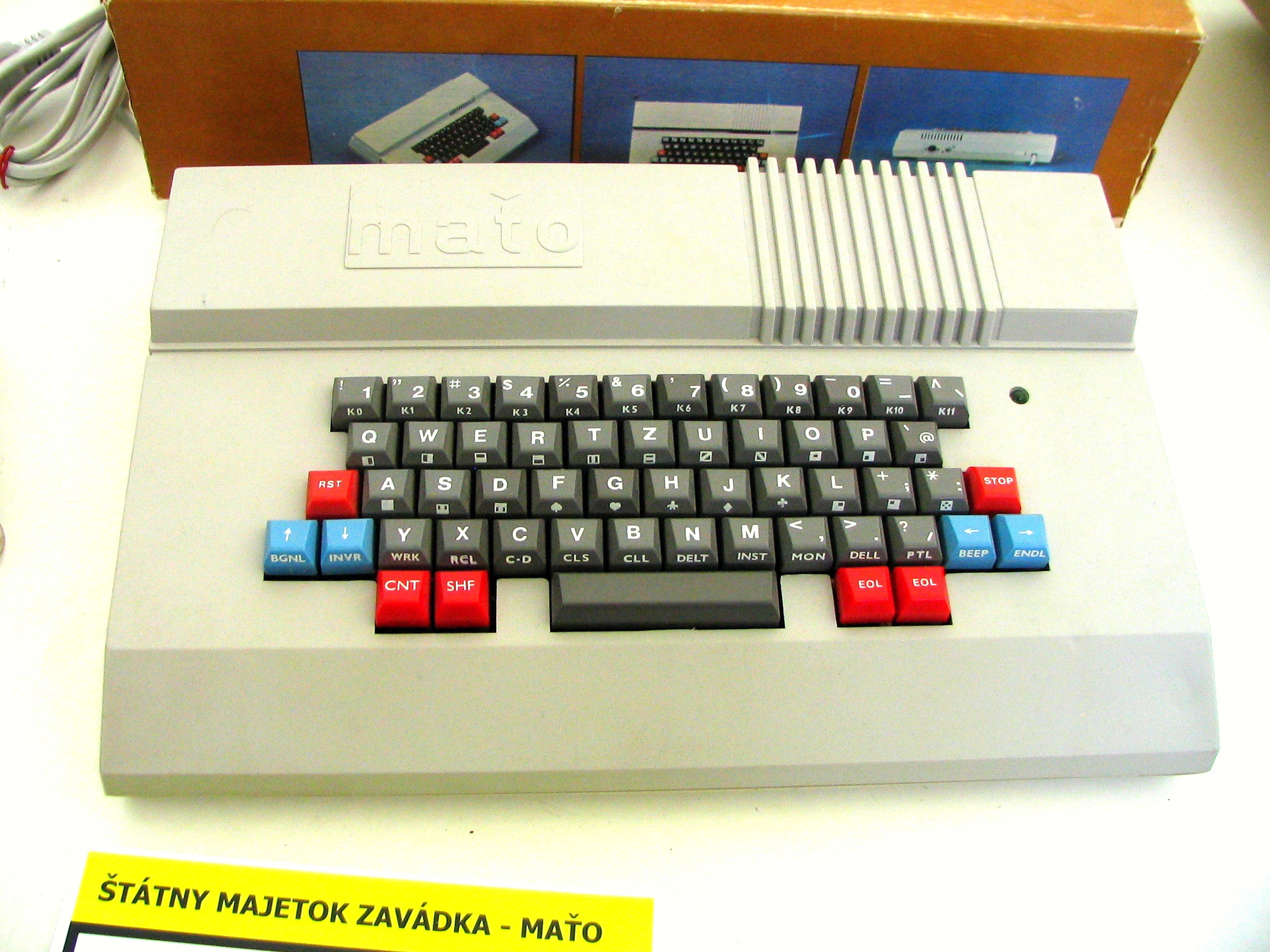 Czechoslovakian 8bit computer Maťo